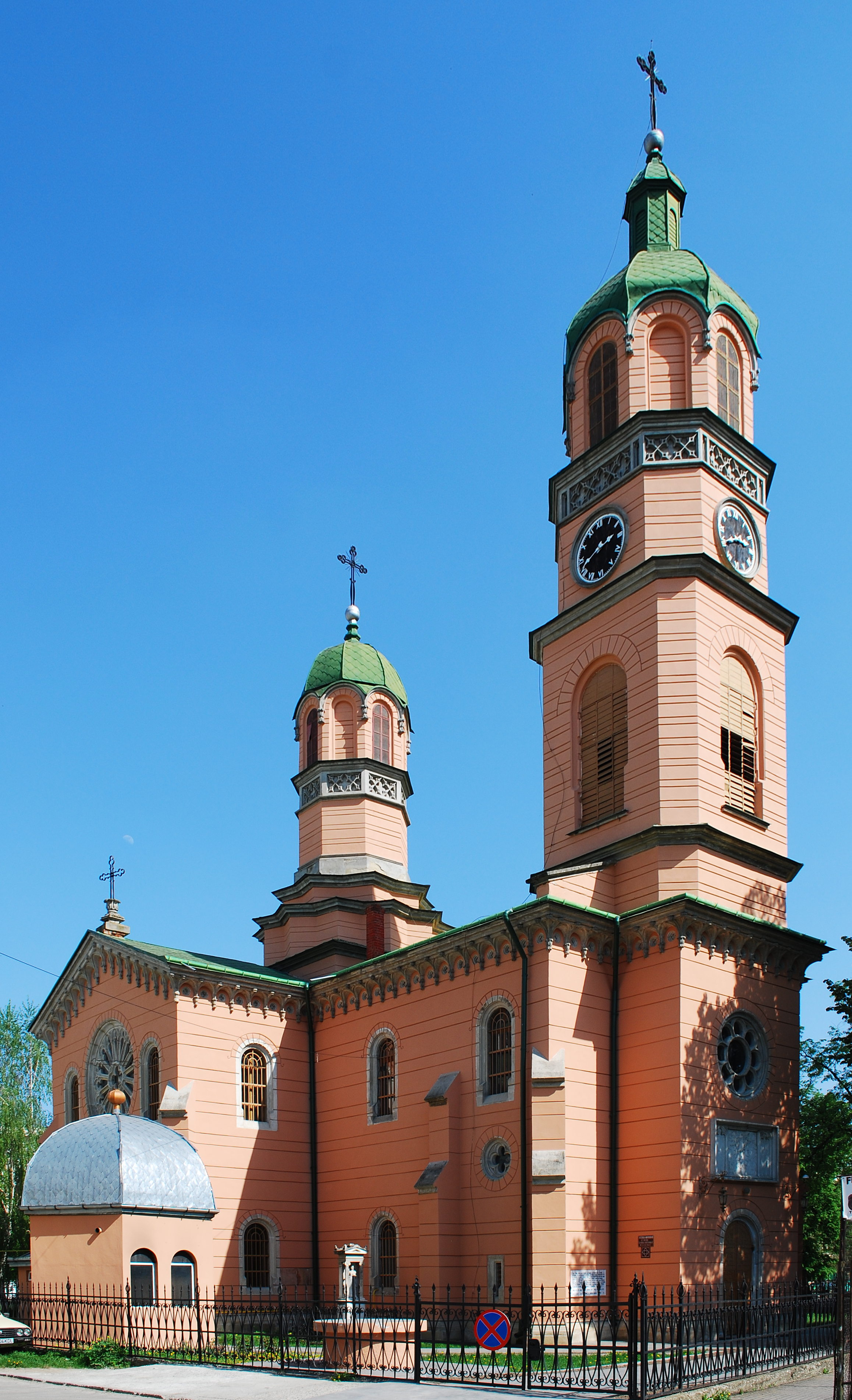 Armenian church in Roman, Neamț County, Romania